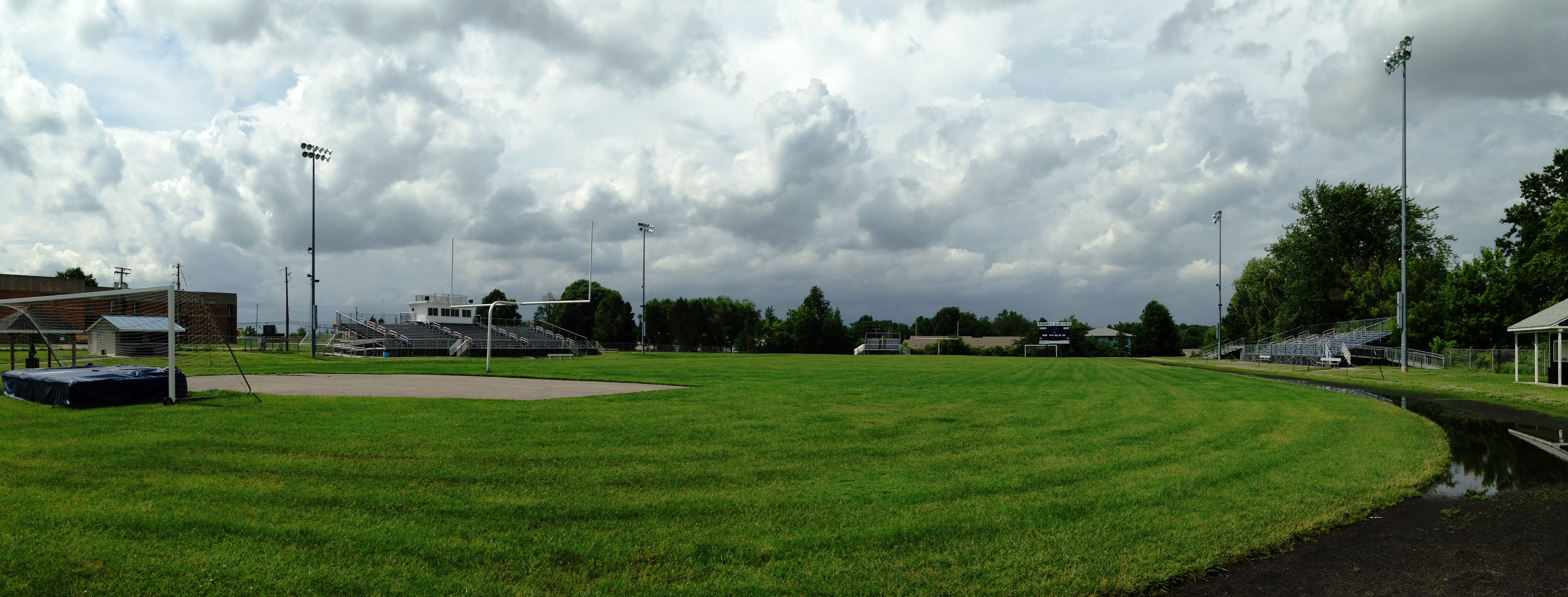 Robert Dunn Field at of Rootstown High School in Rootstown, Ohio, United States.